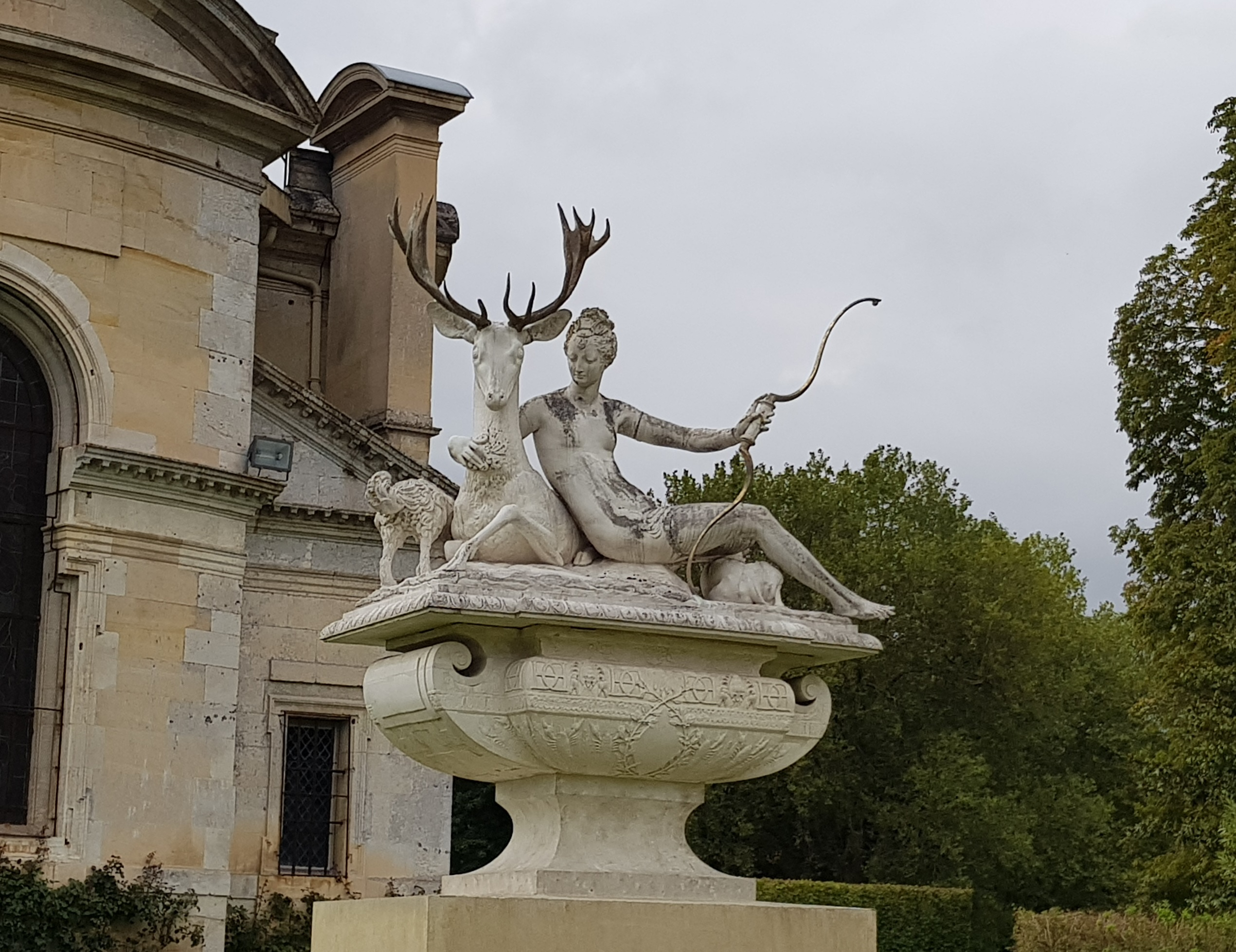 Statue of Diana in château d'Anet (France)